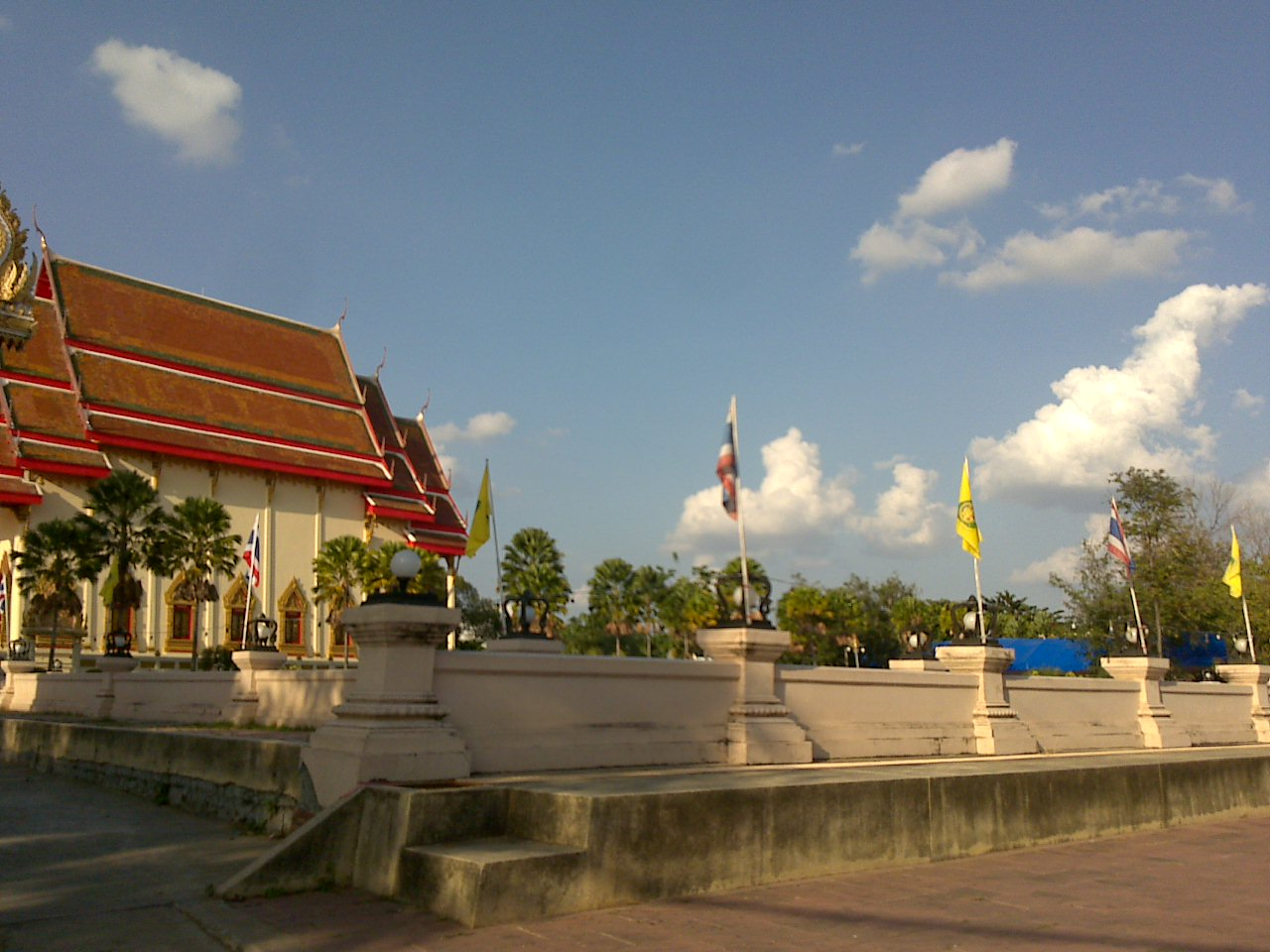 Wat Klang Phra Aram Luang, Buriram, Thailand